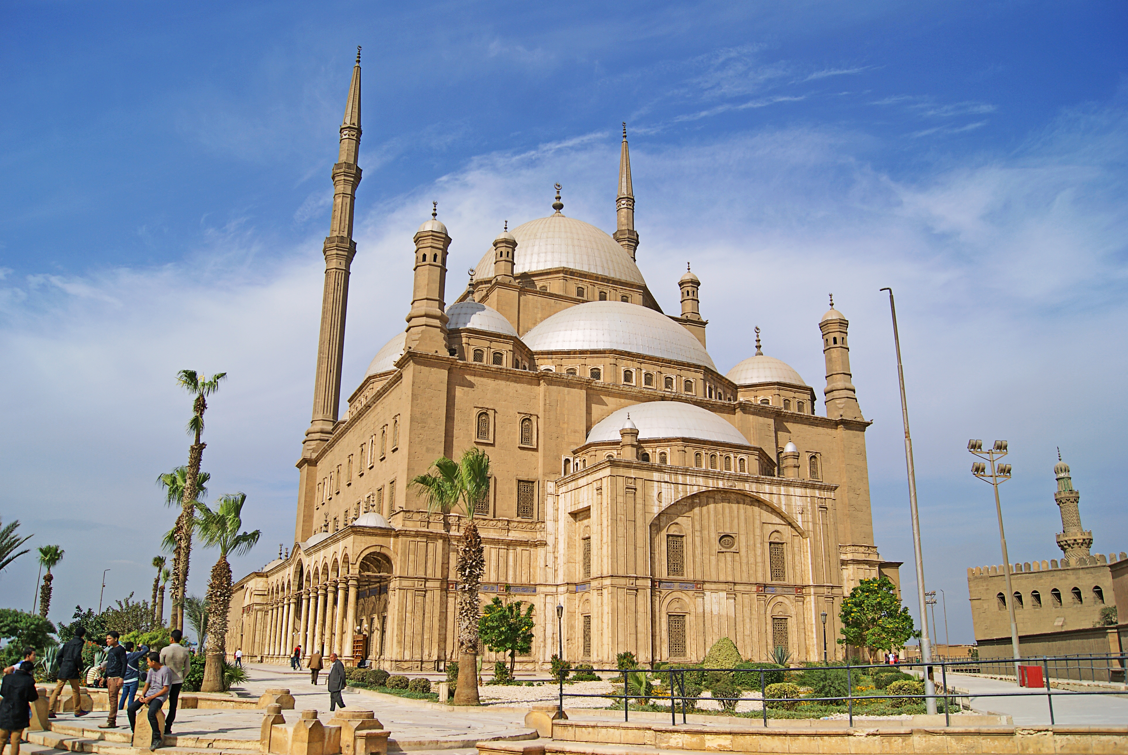 صوره لمسجد محمد علي